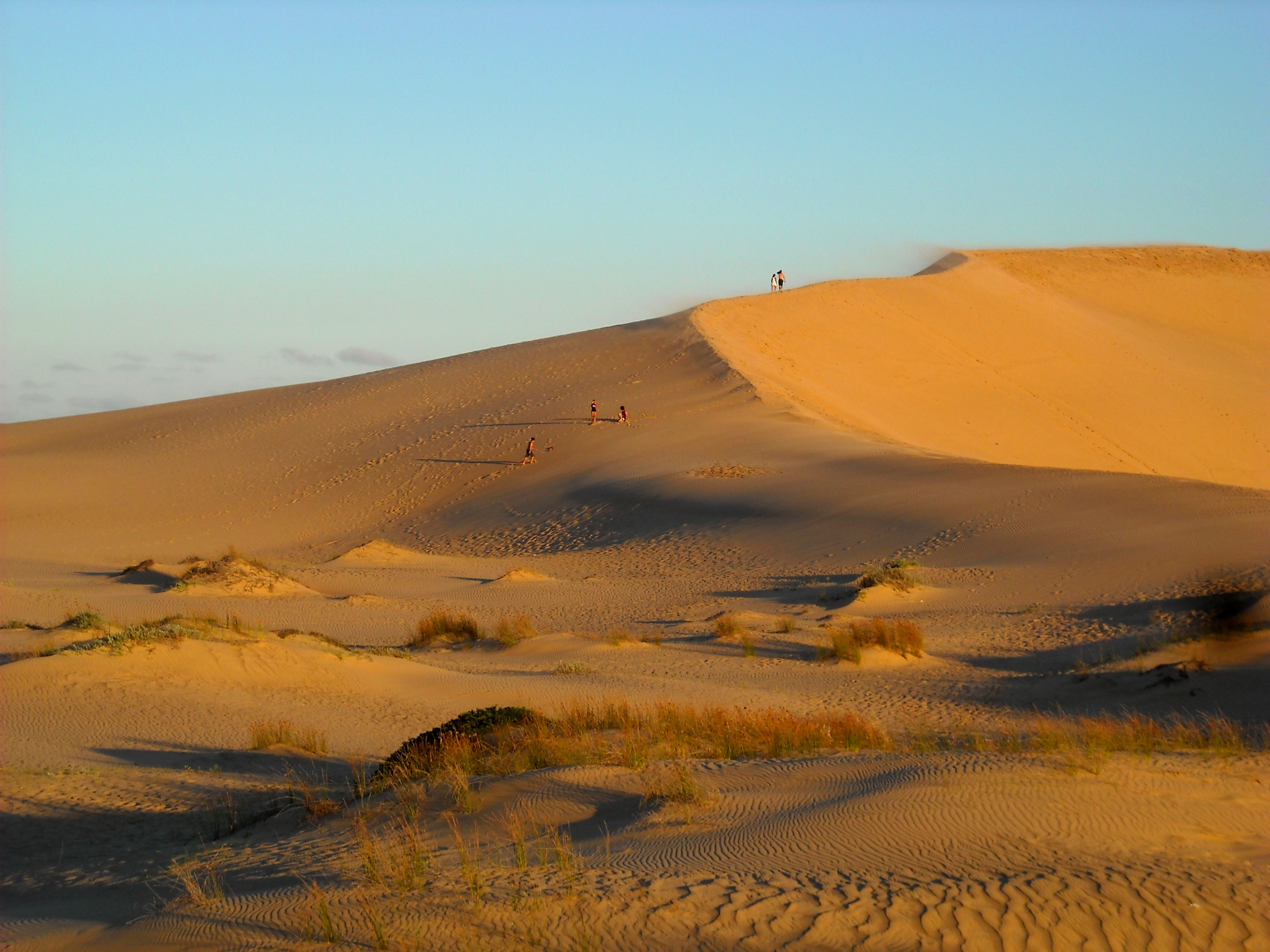 Cabo Polonio National Park in Rocha, Uruguay.